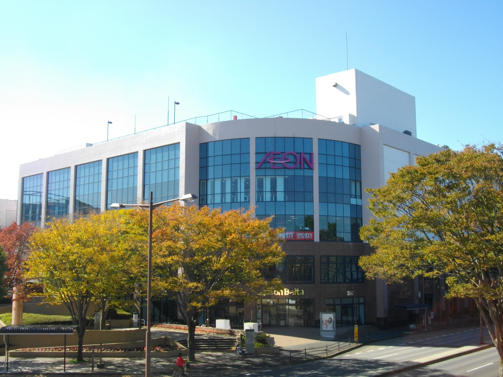 Bon Belta Narita Department Store